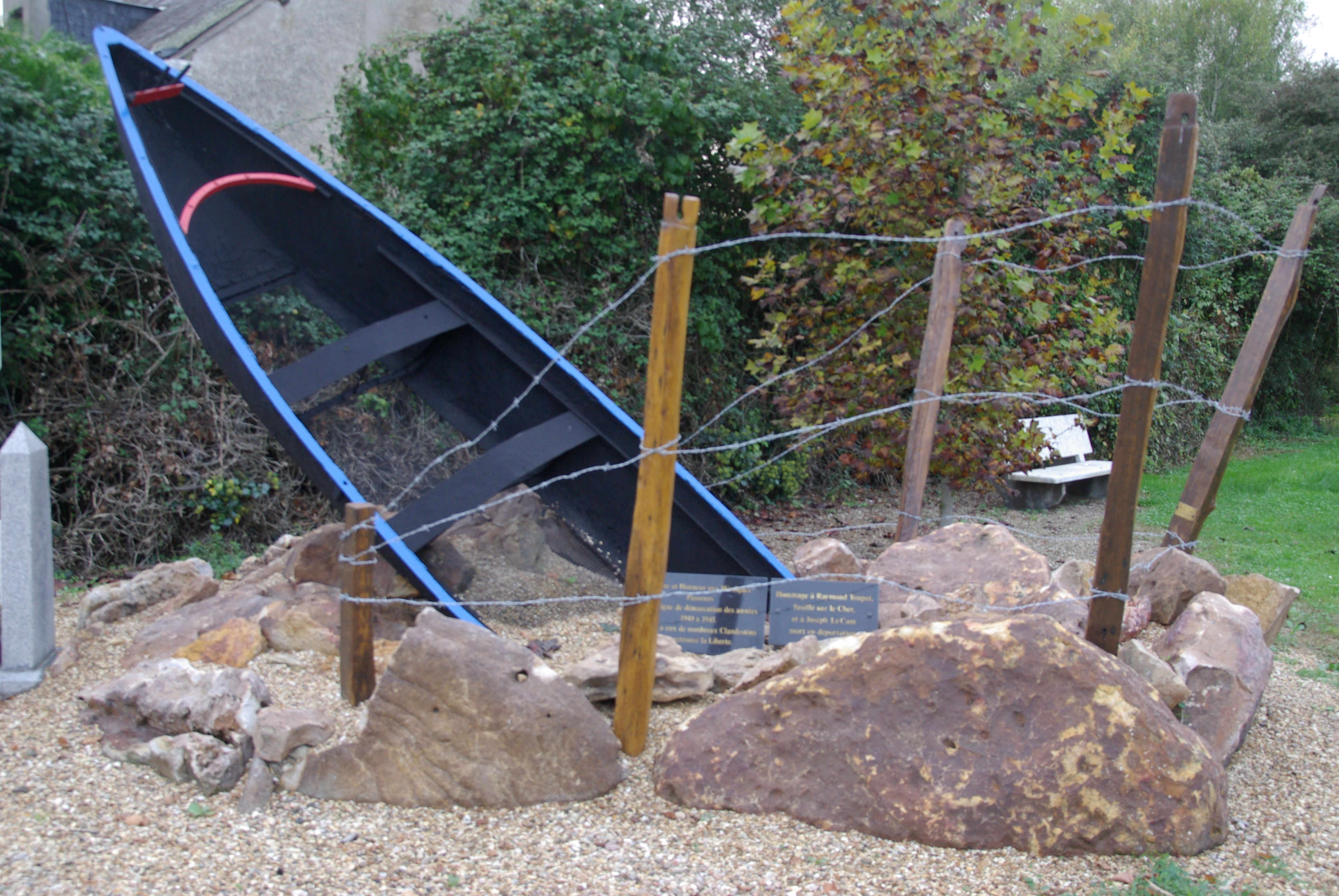 Thénioux, the "Courage-Liberté" monument